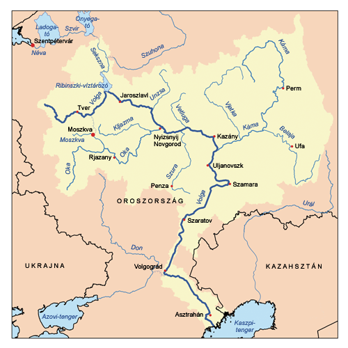 Map of the Volga River system in Hungarian.